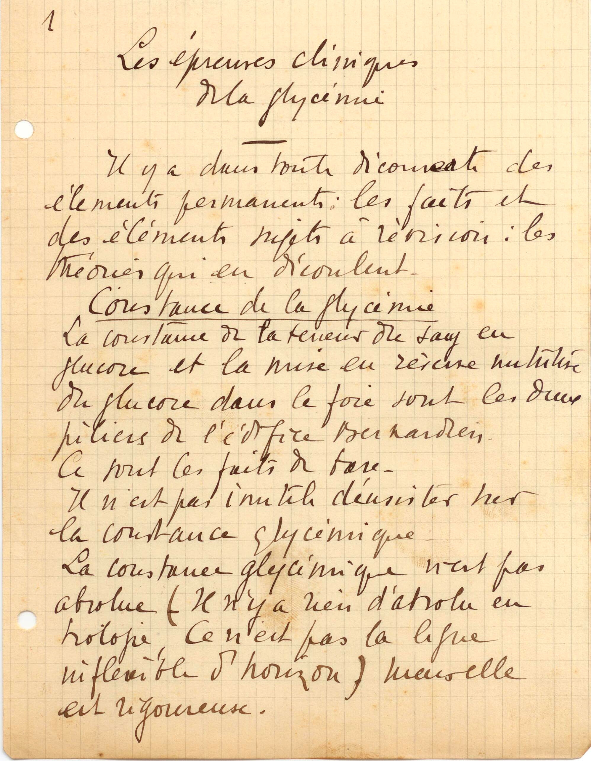 Camille Soula : handwritten lesson, 1933